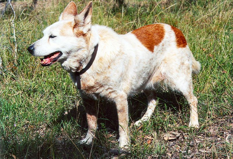 Ruby, a seventeen year old Australian Cattle Dog, on a walk in the bush.